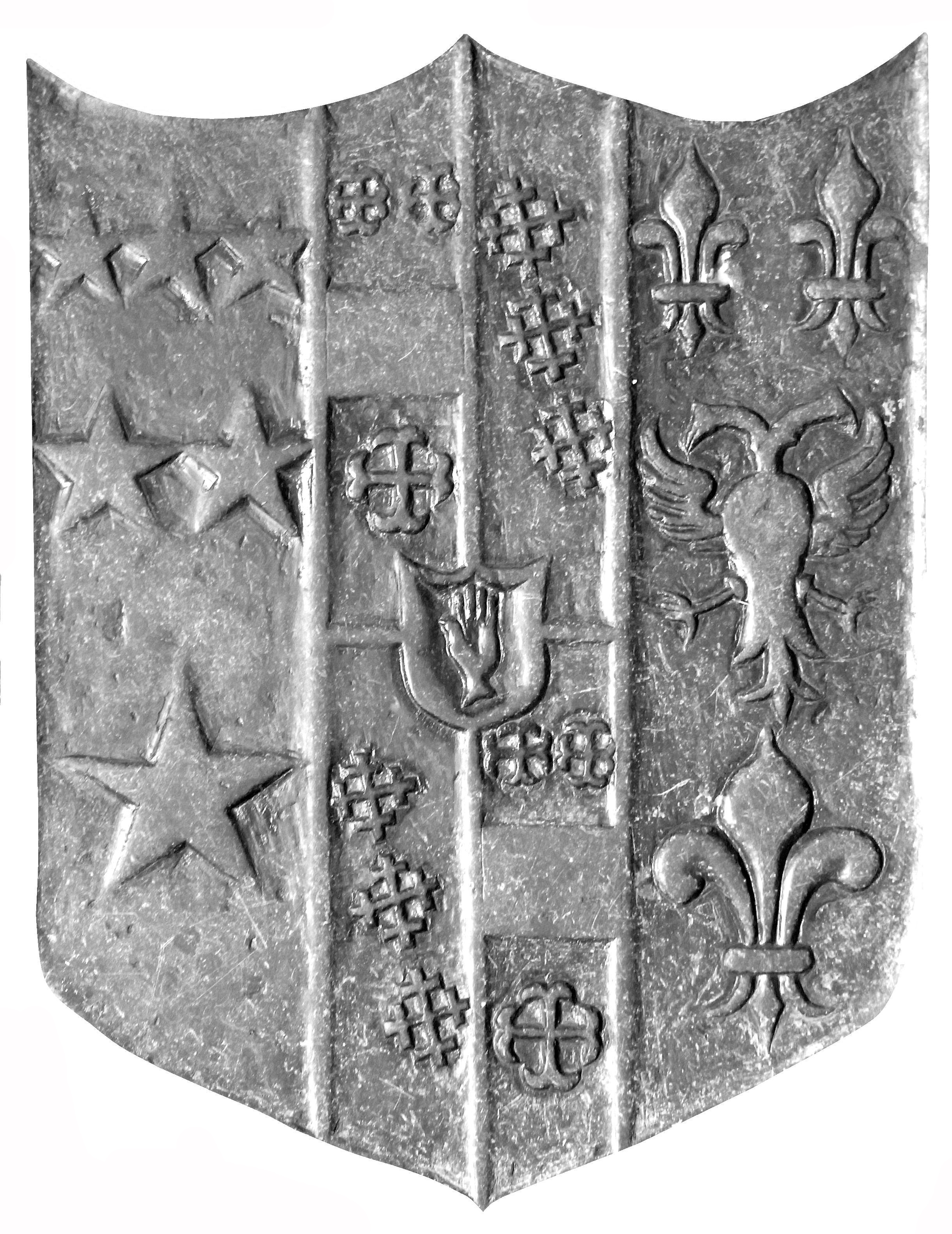 Arms of Sir Arthur Northcote, 2nd Baronet (1628-1688), detail from ledger stone, floor of south chancel aisle, King's Nympton Church, Devon. Text: "Here lieth the body of Sr. Arthur Northcote of Hayn in the county of Devon, Bar.tt. His first wife was Elizabeth the daughter of James Welsh Esq.r. of Alverdiscot in the sd. county by whom he had 2 sons and one daughter deceased; his second wife was Elizabeth ye daughter of Sr. Francis Godolphin in the county of Cornwal, Kt. of ye Bath, by whom he had issue 4 sons & 4 daughters, 6 of them living, two lie also here interr'd with Dame Elizabeth their mother. He died the 15th of April 1688, she the 30th of August 1707 in full assurence of a joyfull resurrection to eternal life." Below is an heraldic escutcheon with the arms of Northcote in centre, impaling dexter: Welsh (six mullets 3:2:1), sinister: Godolphin (an eagle displayed double headed between three fleurs-de-lis) overall in an inescutcheon the Red Hand of Ulster. Underneath: "Piae parentum memoriae hoc marmor posuerunt liberi immo tibi qui hoc legis quis quis es vigilia dum vigilas et in rem tuam mature propera horam scit nemo"